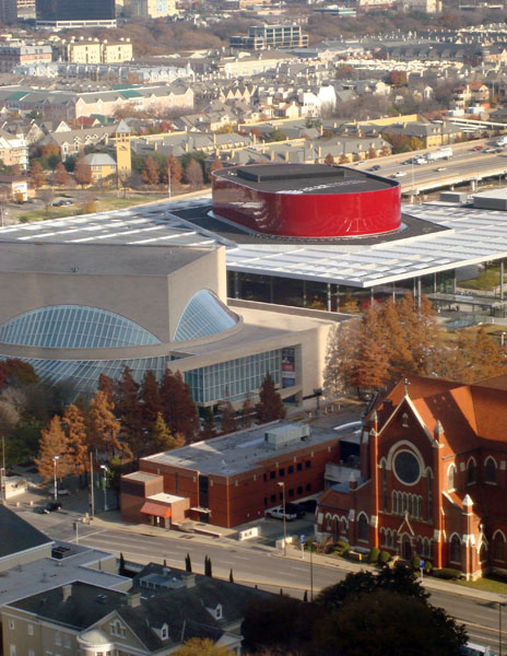 Meyerson Symphony Center and Winspear Opera House in Dallas.